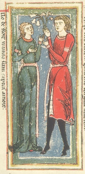 Codex Buranus - miniature on folio 72v